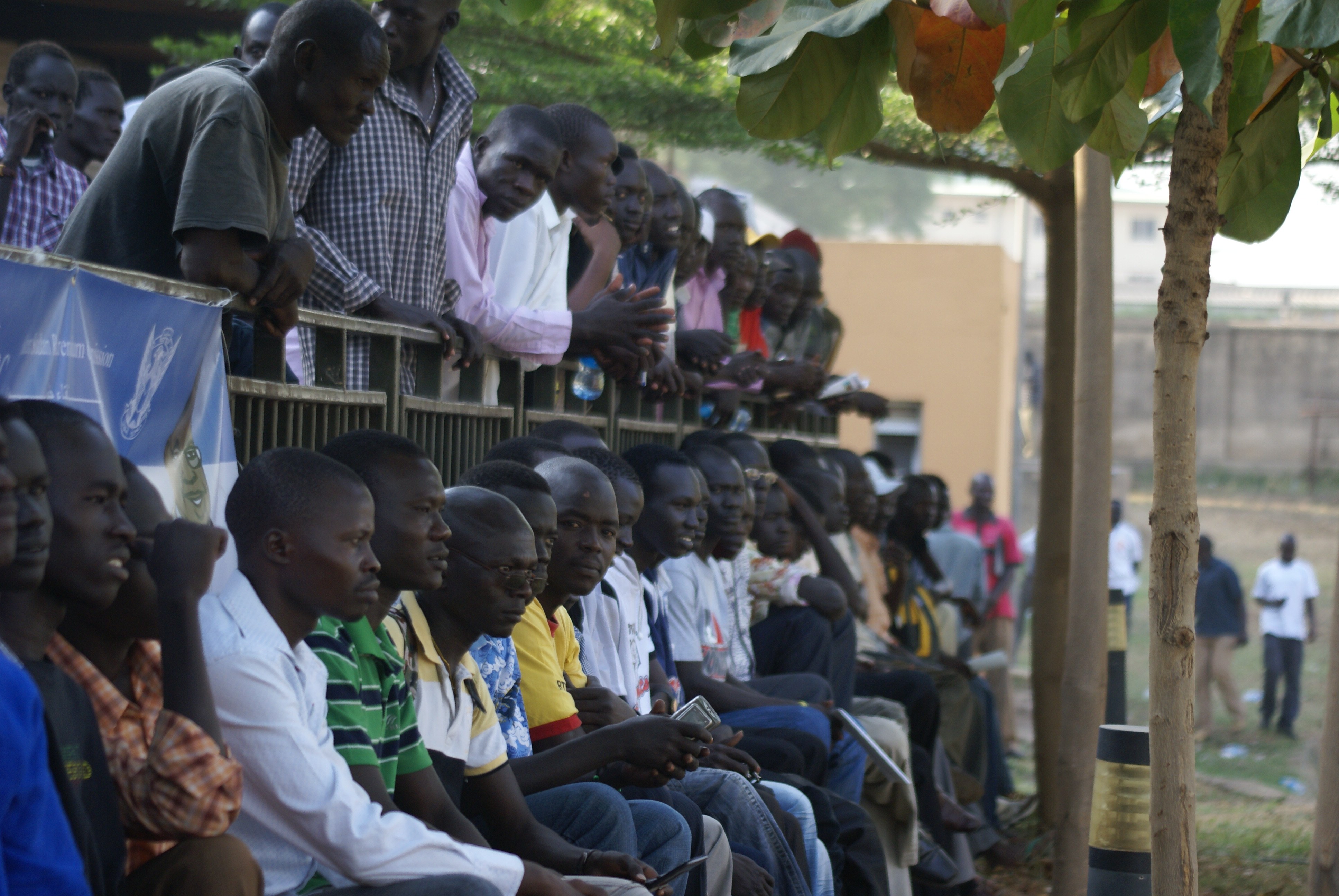 Many southerners believe they are ethnically or religiously distinct from the mostly Arab and Muslim north.